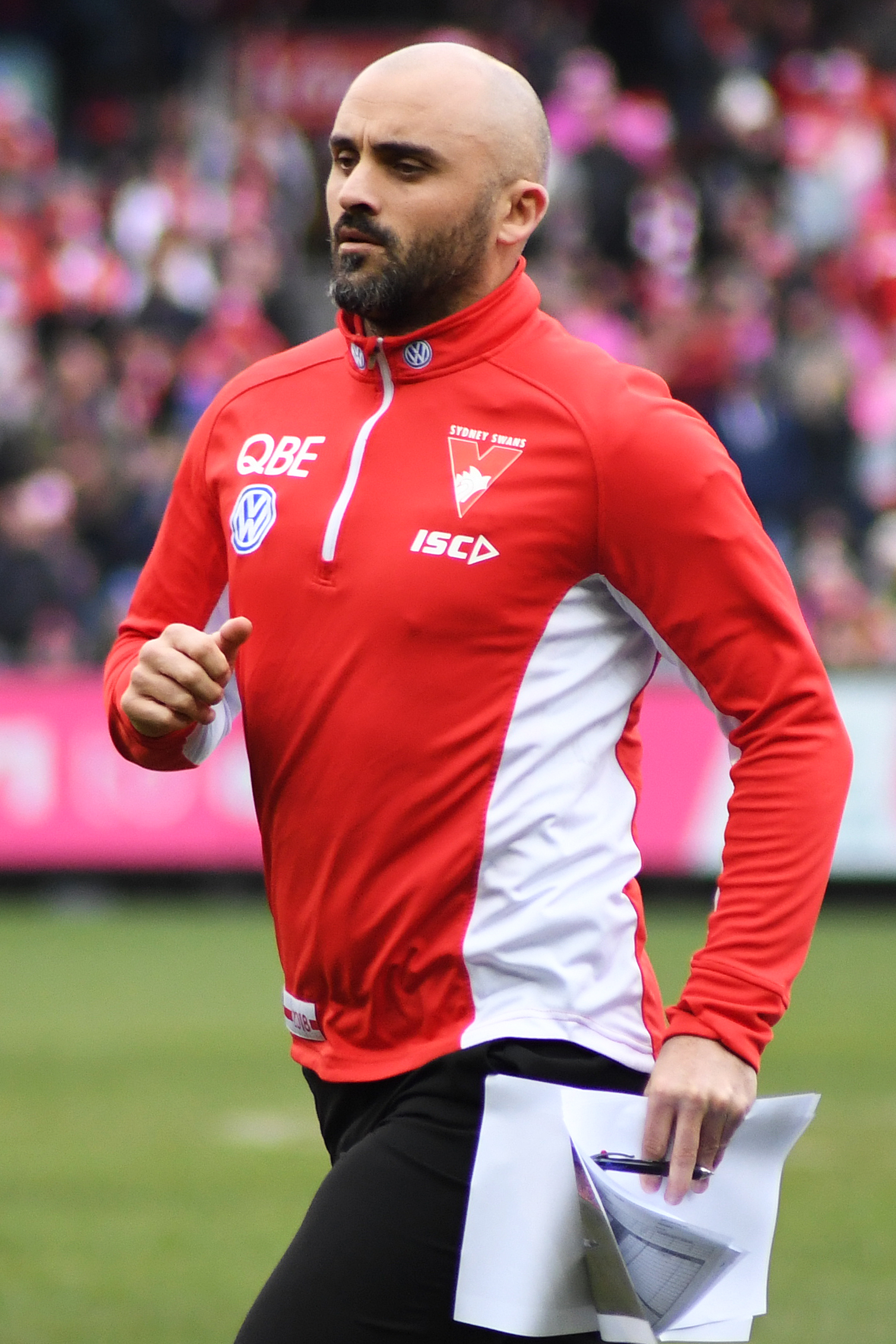 Rhyce Shaw of Sydney during the 2018 AFL round 21 match between Melbourne and Sydney at the Melbourne Cricket Ground on Sunday, 12 August 2018 in Melbourne, Victoria.